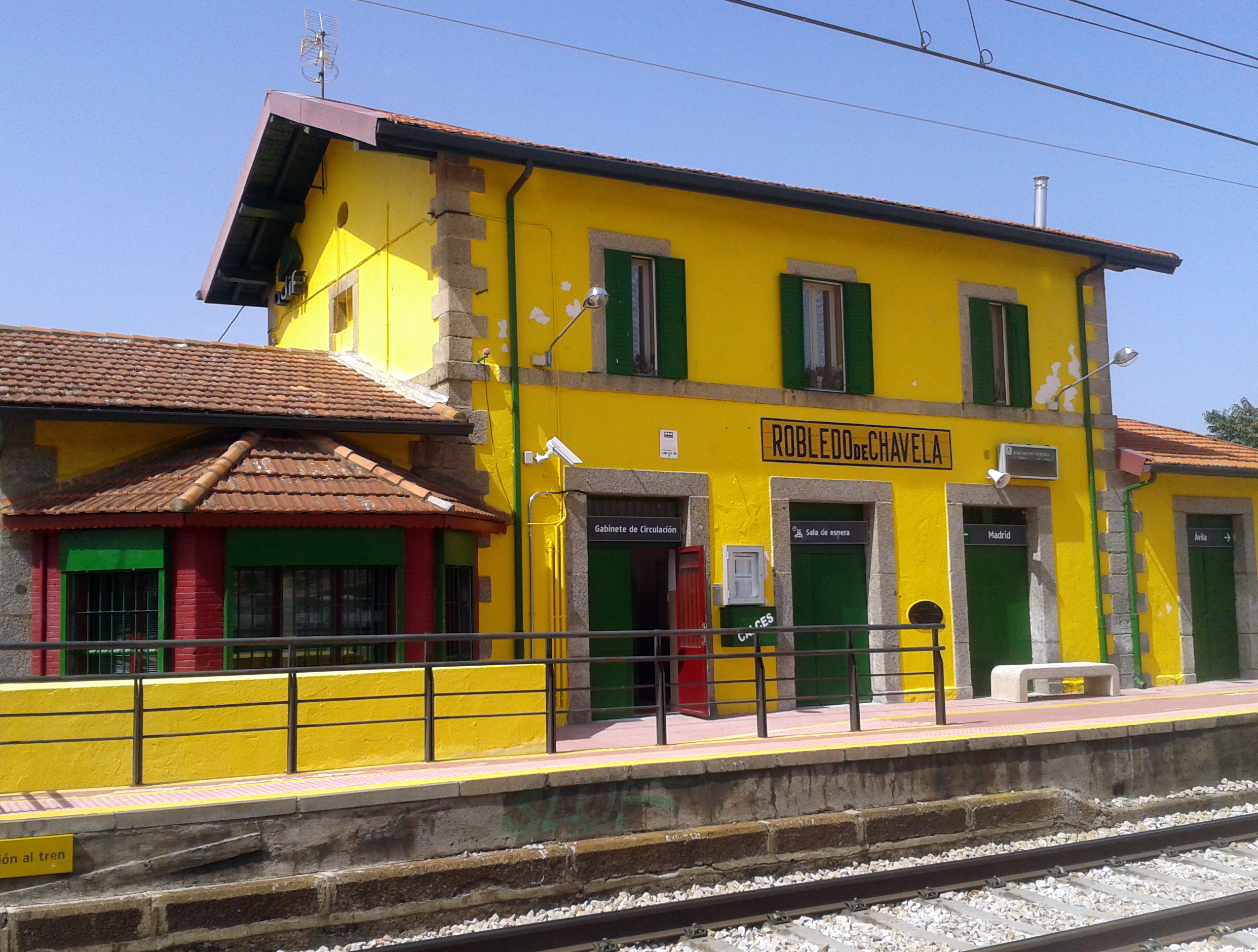 Robledo de Chavela railway station, Madrid, Spain.